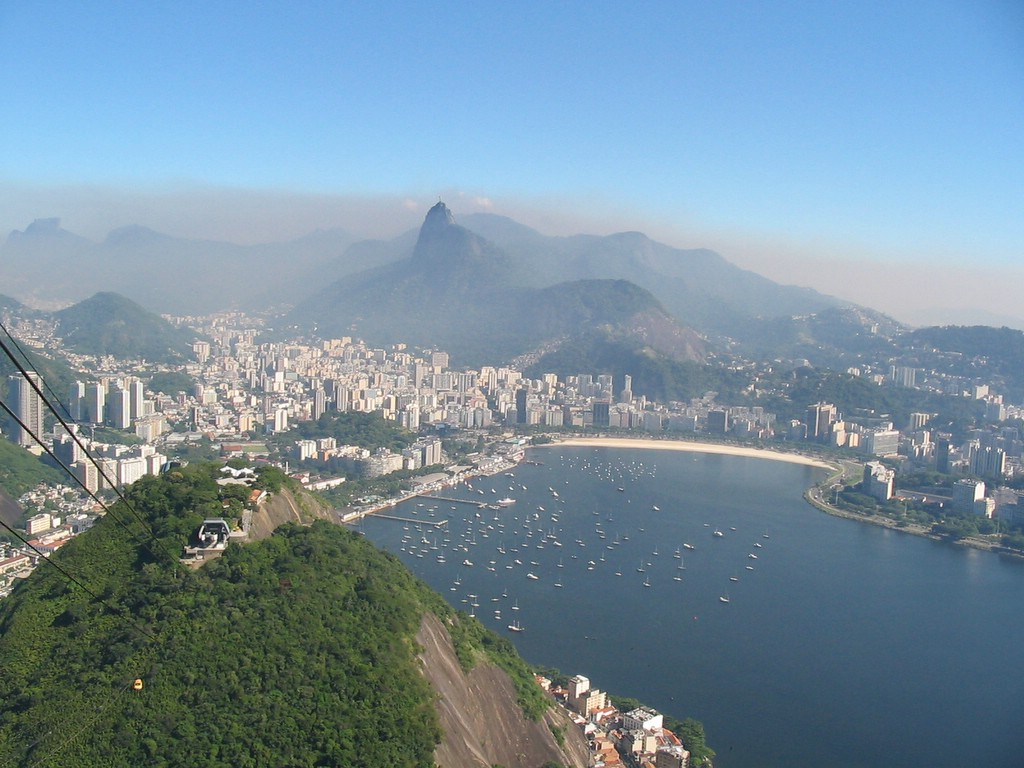 Aerial view of Botafogo Bay and part of Rio de Janeiro, including Botafogo.